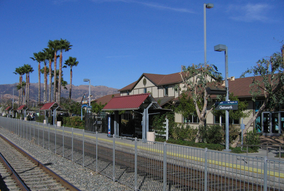 Chatsworth Station or Chatsworth Transportation Center — in Chatsworth, northwestern San Fernando Valley, Los Angeles. An intermodal passenger transport station for the: Amtrak; Metrolink Ventura County Line; LACMTA Orange Line, and Simi Valley and Santa Clarita bus system links.